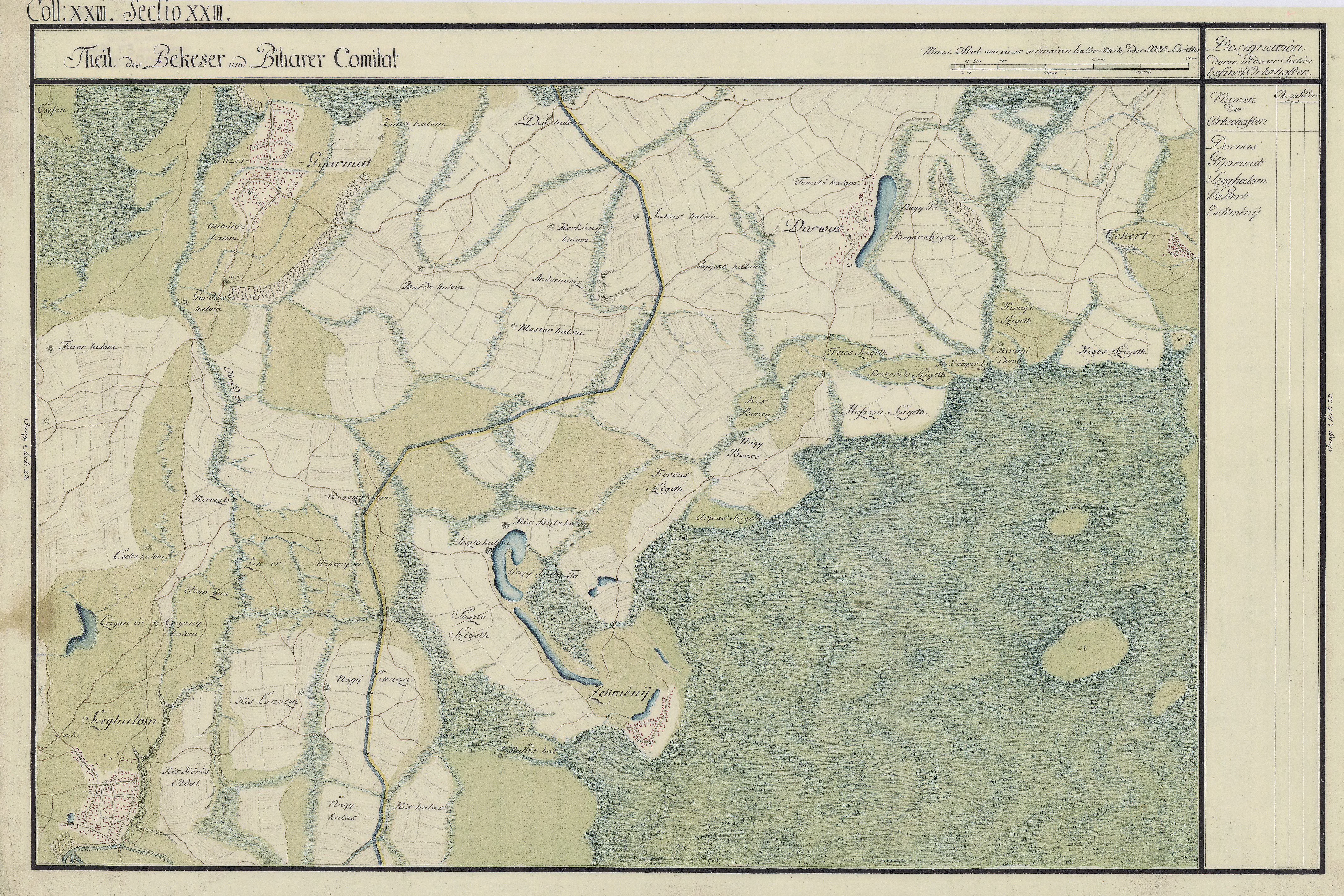 Kingdom of Hungary, 1782-85. Josephinische Landesaufnahme pg.23-23. Counties shown on the map: 1. Bihar County 2. Bekeser County